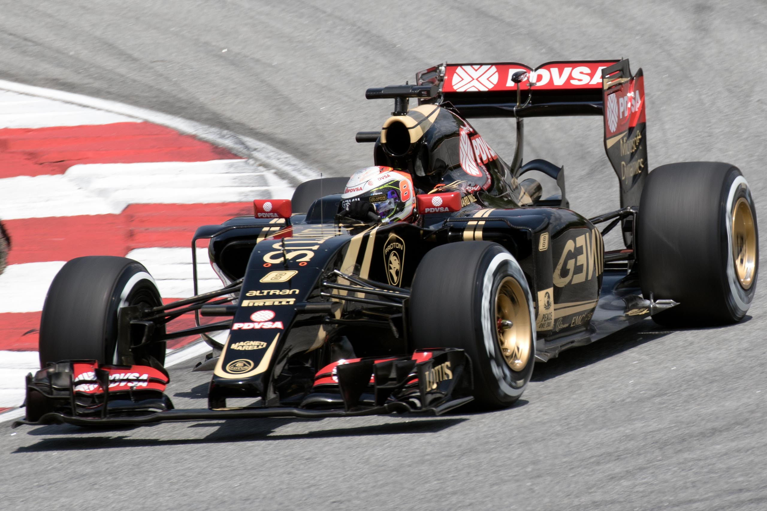 Formula One 2015 Rd.2 Malaysian GP: Romain Grosjean (Lotus)